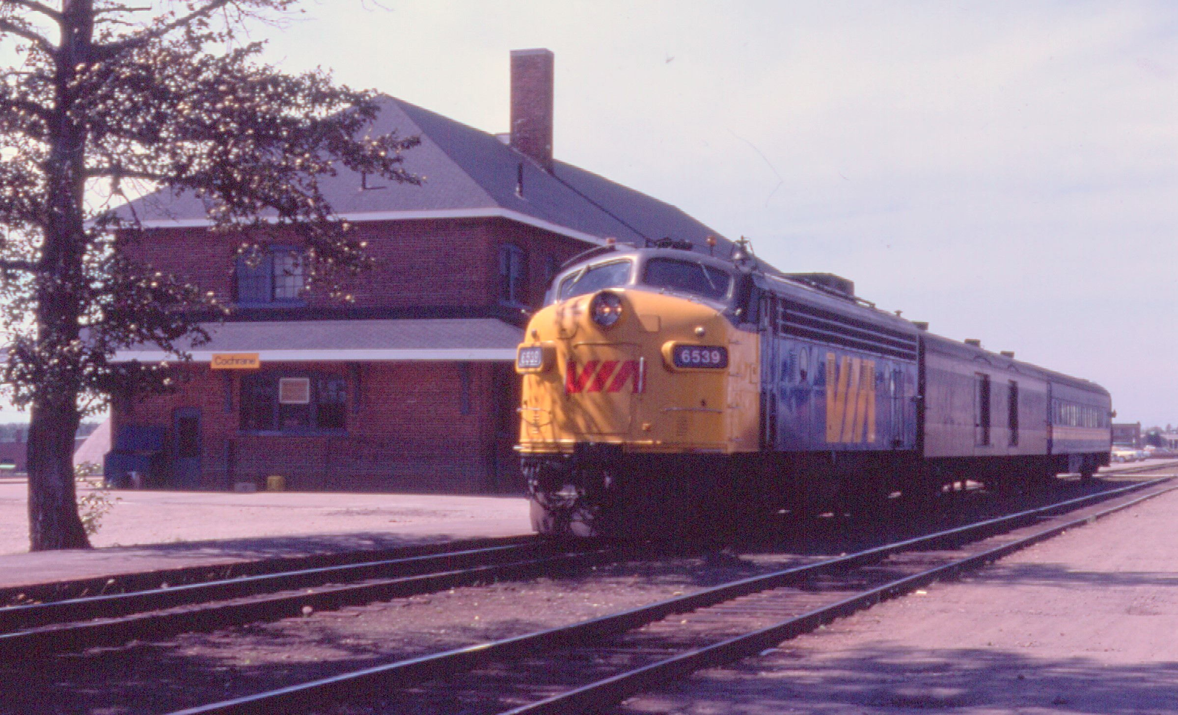 This train used to run the old National Transcontinental route from Cochrane to Québec City. Note one baggage car and one passenger car. It will add passenger cars en route.